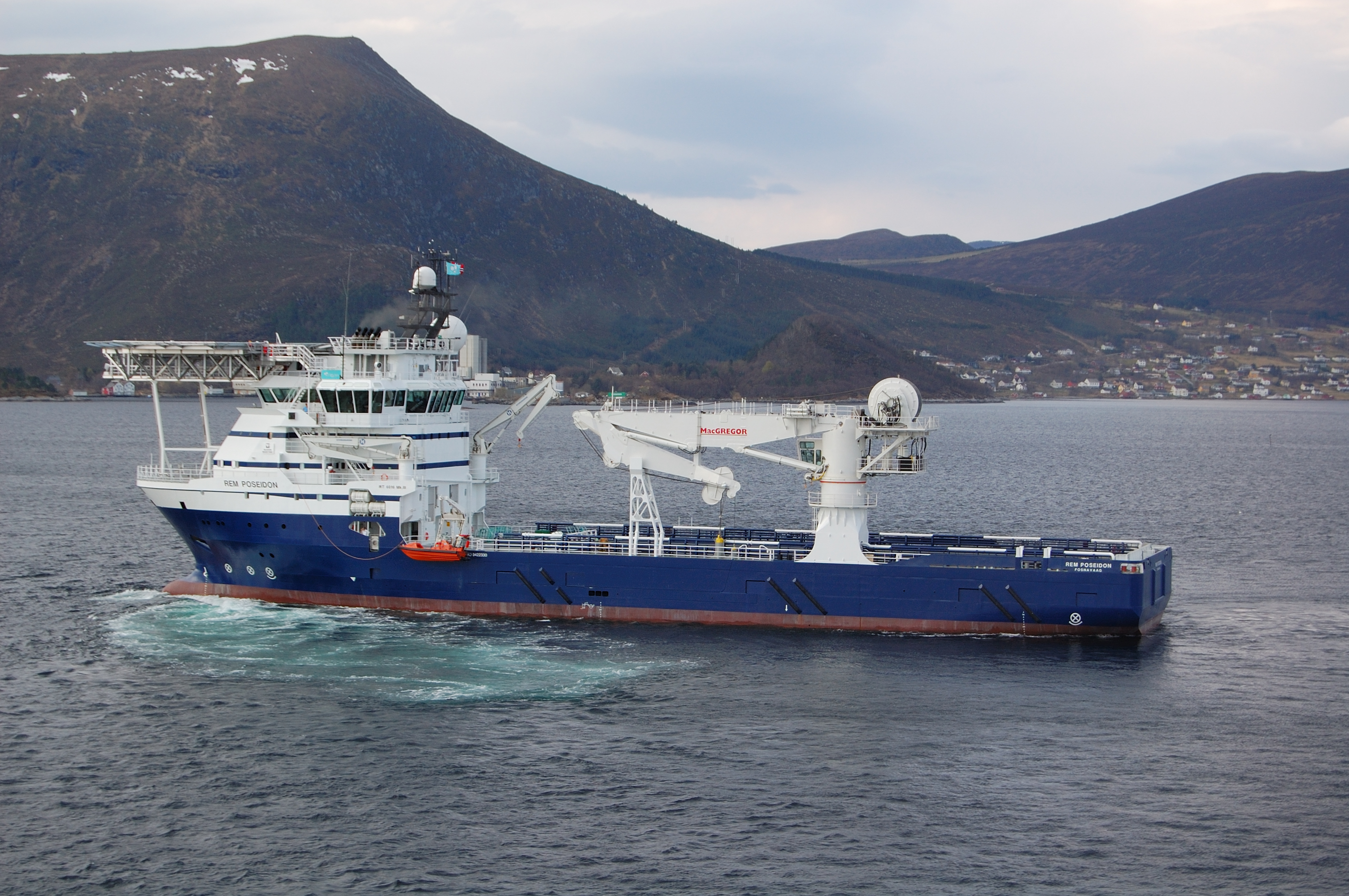 Norwegian supply vessel REM Posedion (IMO 9422330).